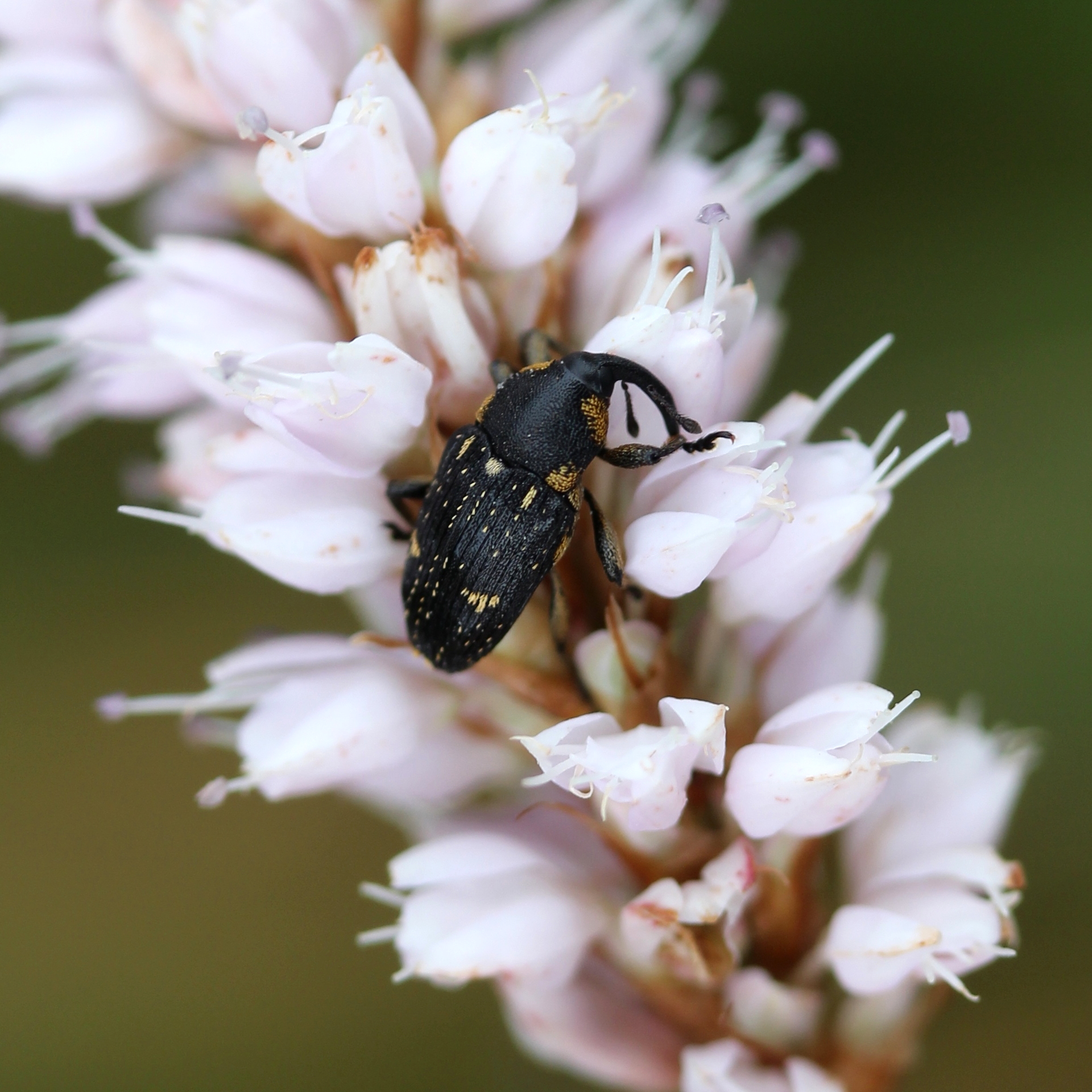 Baris dispilota on Bistorta officinalis subsp. japonica in Mount Ibuki, Maibara, Shiga Prefecture, Japan.